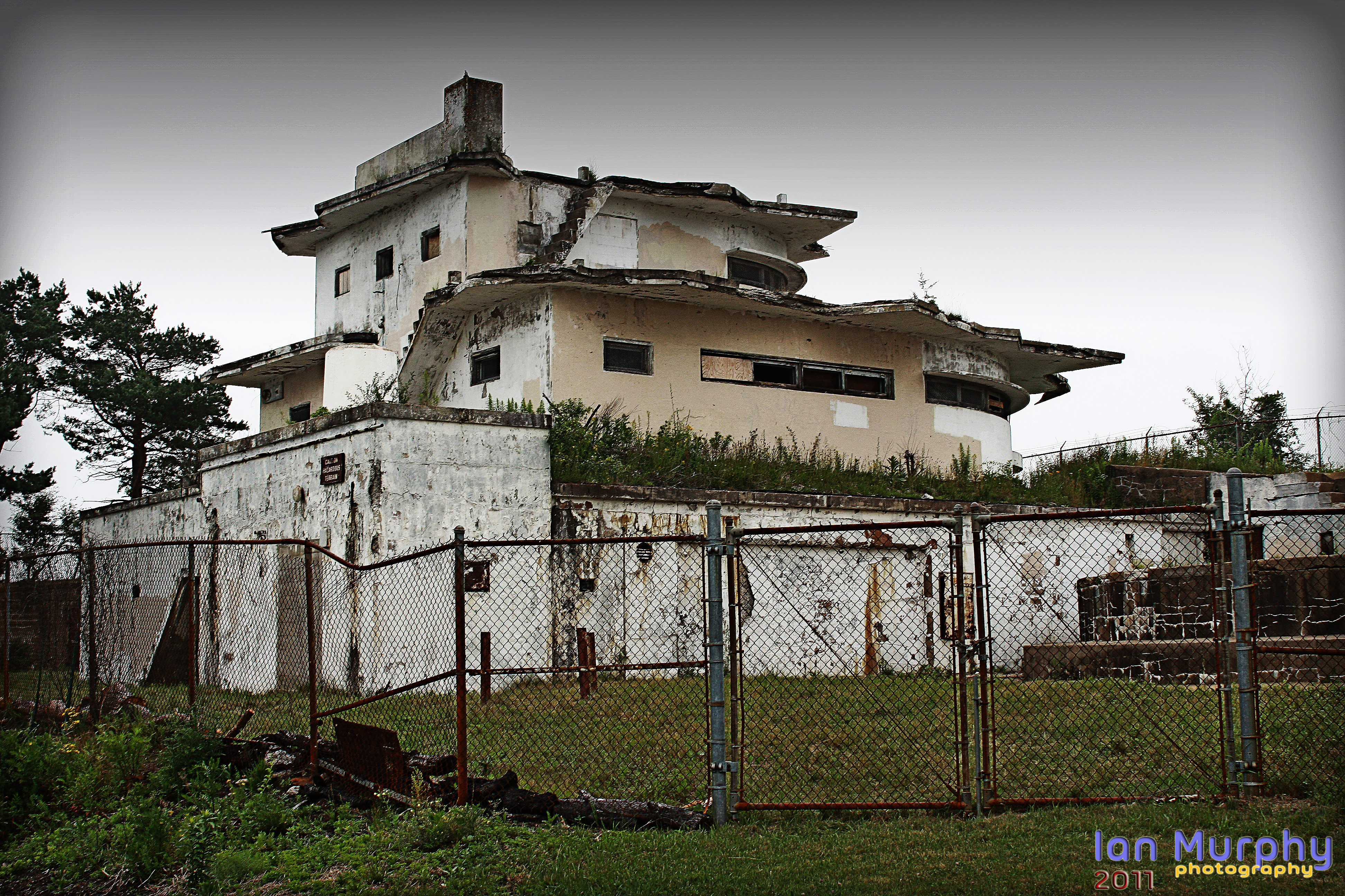 Fort Stark, New Hampshire